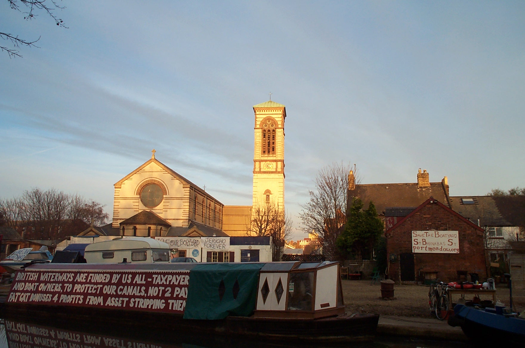 Jericho Boatyard protest in Oxford, England